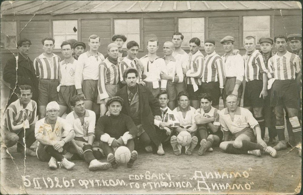 05.02.26: Dinamo (Baku) vs Dinamo Tbilisi(1:1)